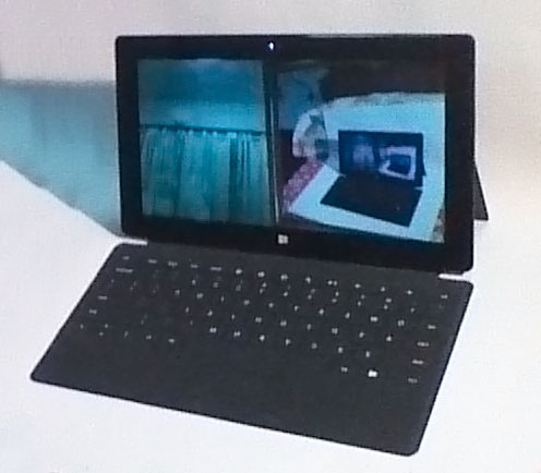 Microsoft Surface 2, a selfiee